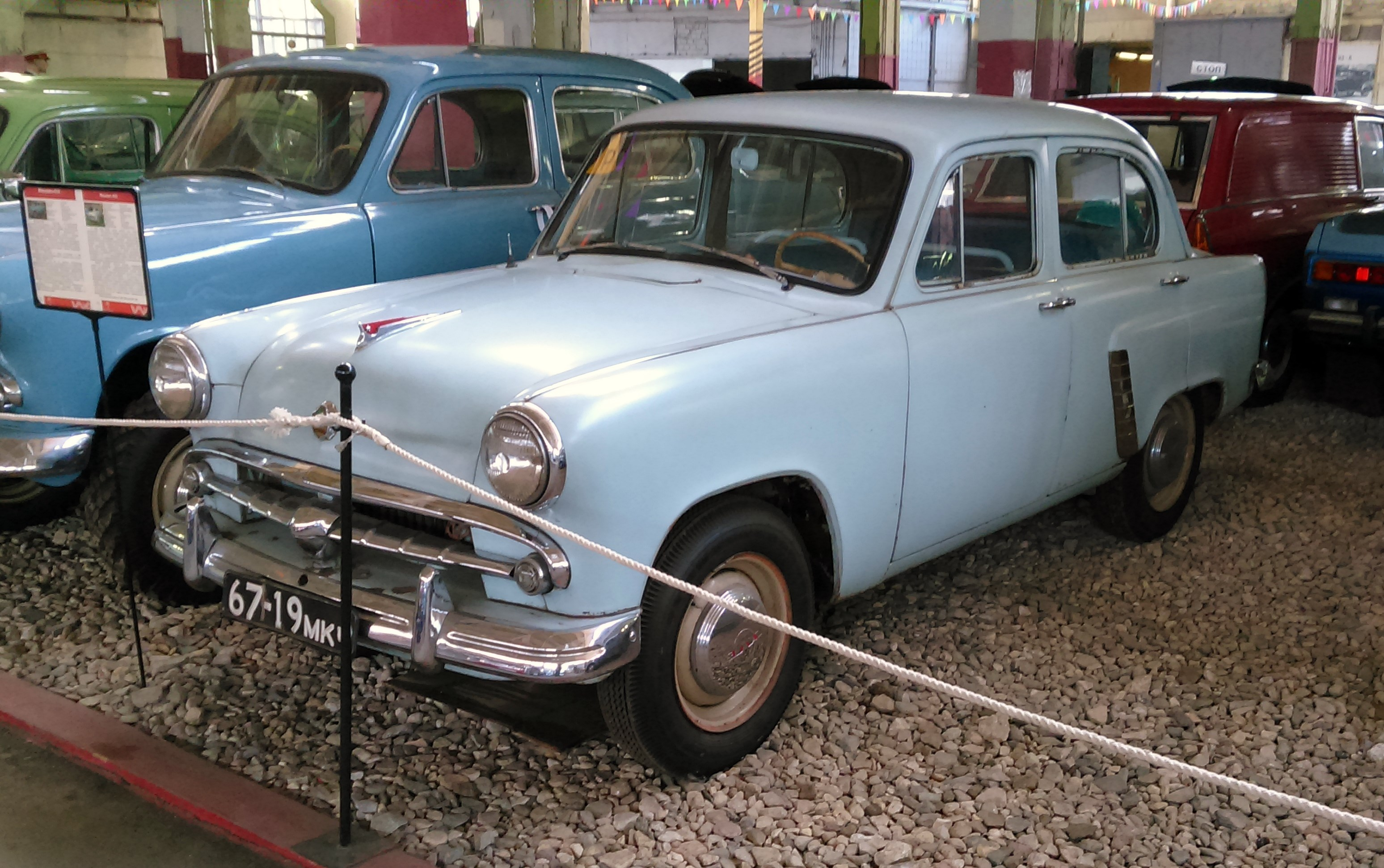 Moskvitch-402, probably a Moskvitch-402B (with hand controls for disabled drivers). Cropped.